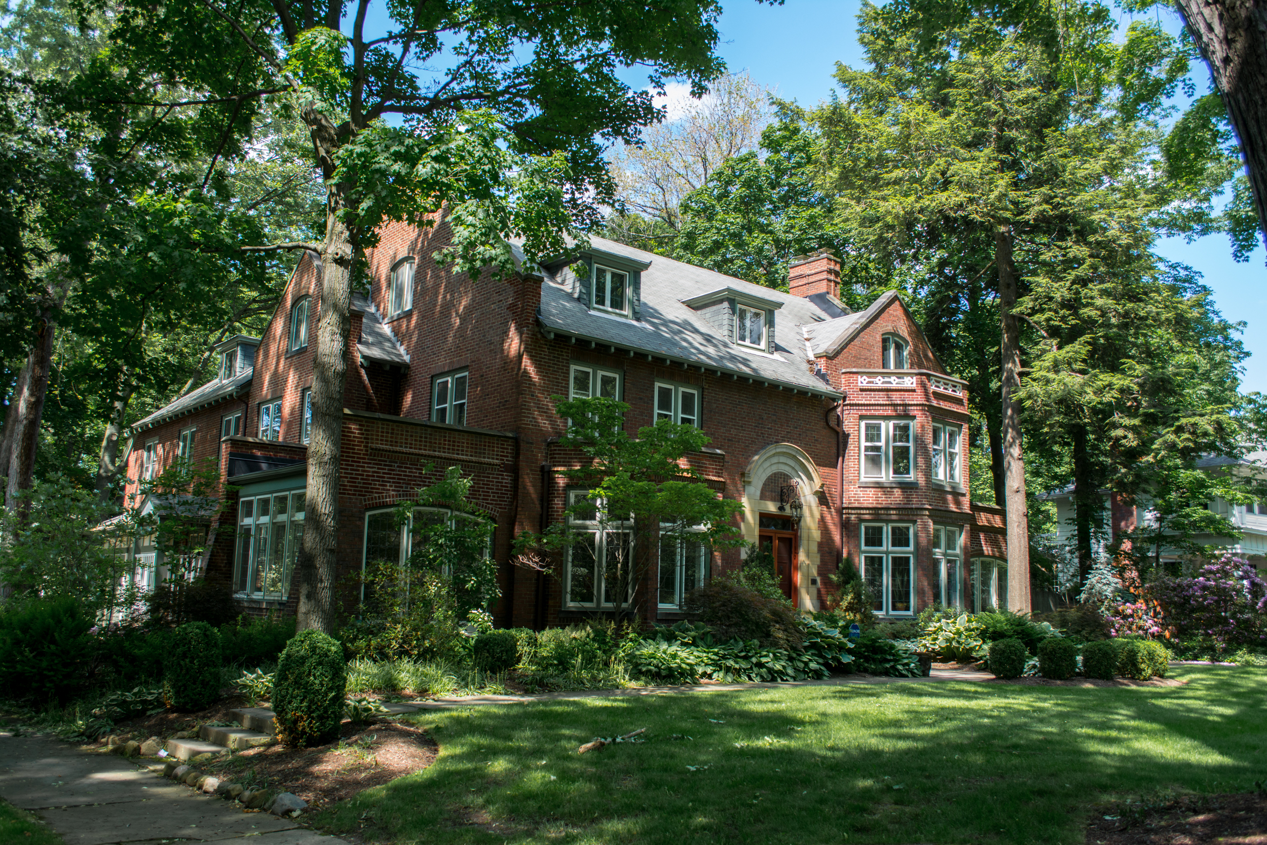 House at 2639 Fairmount Blvd. in Cleveland Heights, Ohio, in the United States. The house and street are located within the Euclid Golf Allotment, a planned community on the National Register of Historic Places.